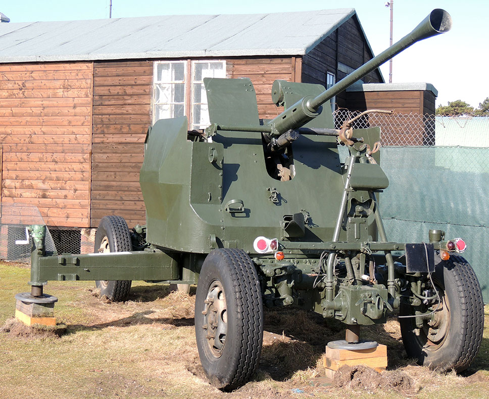 Bofors 40 mm L/70 Anti Aircraft gun at Montrose Air Station Heritage Centre.